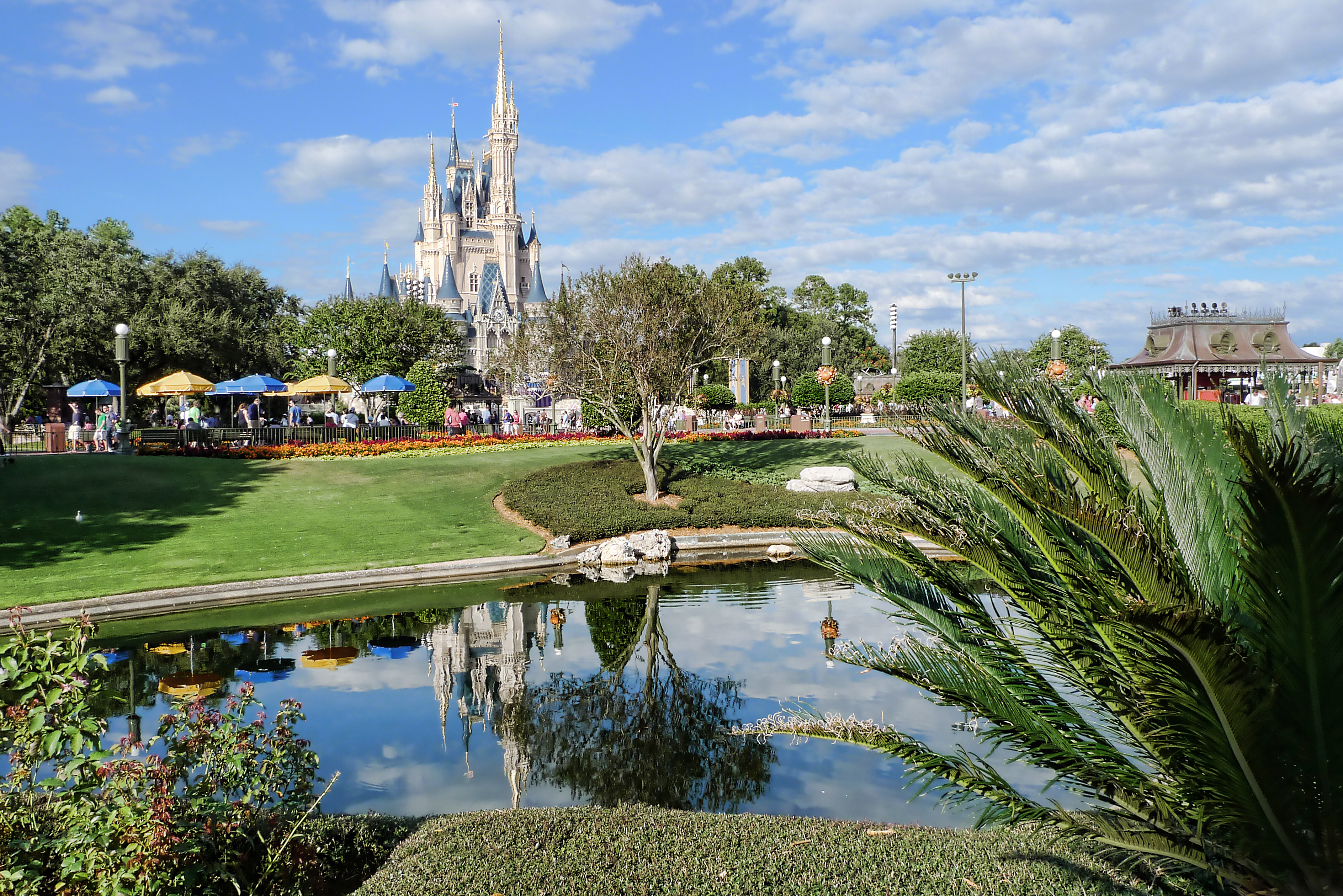 Cinderella Castle in Magic Kingdom (Walt Disney World Resort, Florida)